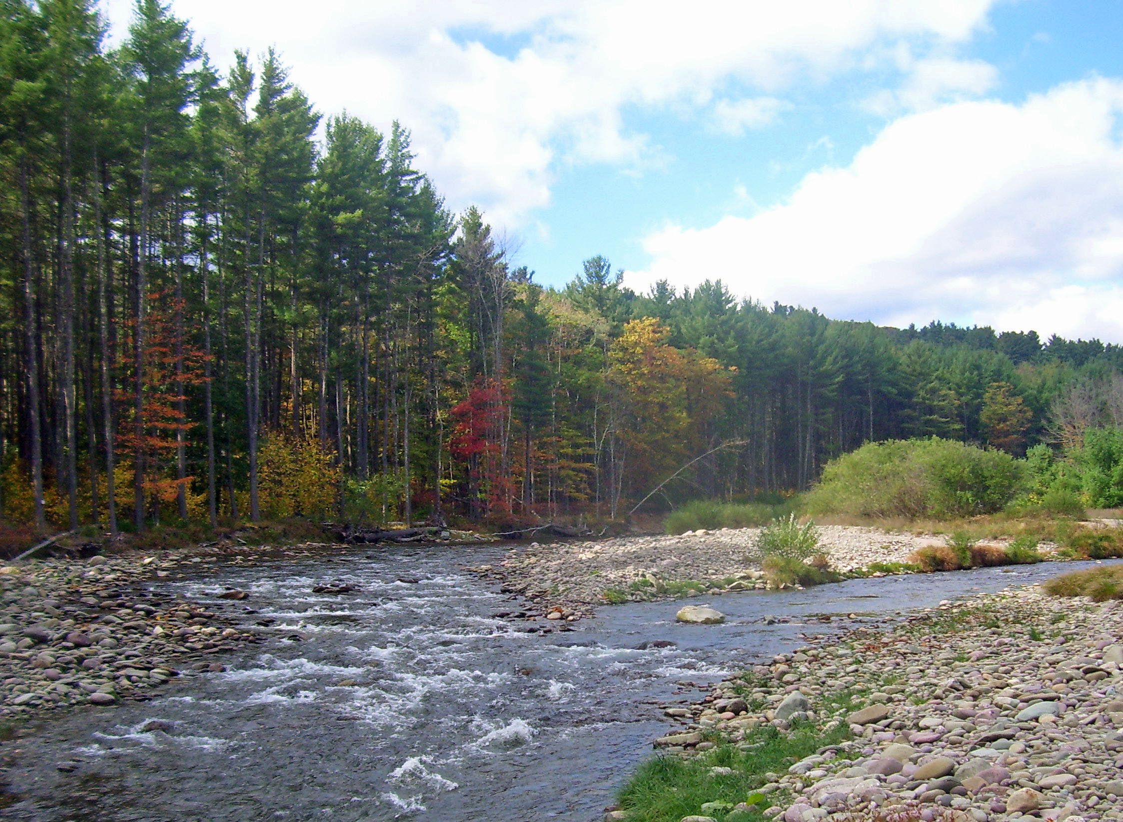 Confluence of east and west branches of Neversink River, and beginning of main stream, near Claryville, NY, USA